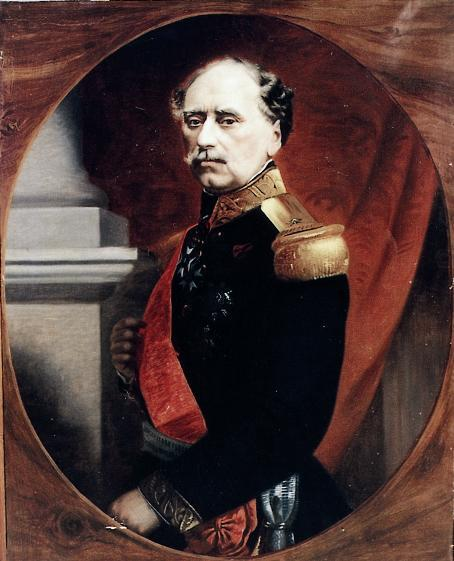 Dimitrios Kallergis (1803-1867) Greek Officer Δημήτριος Καλλέργης